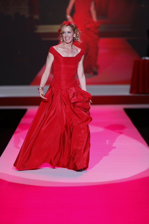 The Heart Truth® is a national awareness campaign for women about heart disease sponsored by the National Heart, Lung, and Blood Institute (NHLBI), part of the National Institutes of Health, U.S. Department of Health and Human Services (HHS). The Red Dress®, introduced by the NHLBI in 2002, is the national symbol for women and heart disease awareness. Visit for information on women and heart disease. ®, TM The Heart Truth, its logo and The Red Dress are trademarks of HHS. Participation by Mercedes-Benz Fashion Week, Diet Coke, Swarovski, Tylenol, St. Joseph's Aspirin, Bobbi Brown, and Brian Atwood does not imply endorsement by HHS.